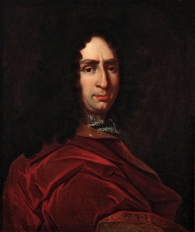 Painting, Portrait of Jacques-René de Brisay, Marquis de Denonville (1637-1710), Anonymous, Oil on canvas, 64.5 x 54.1 cm